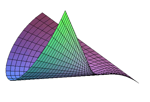 Developable surface